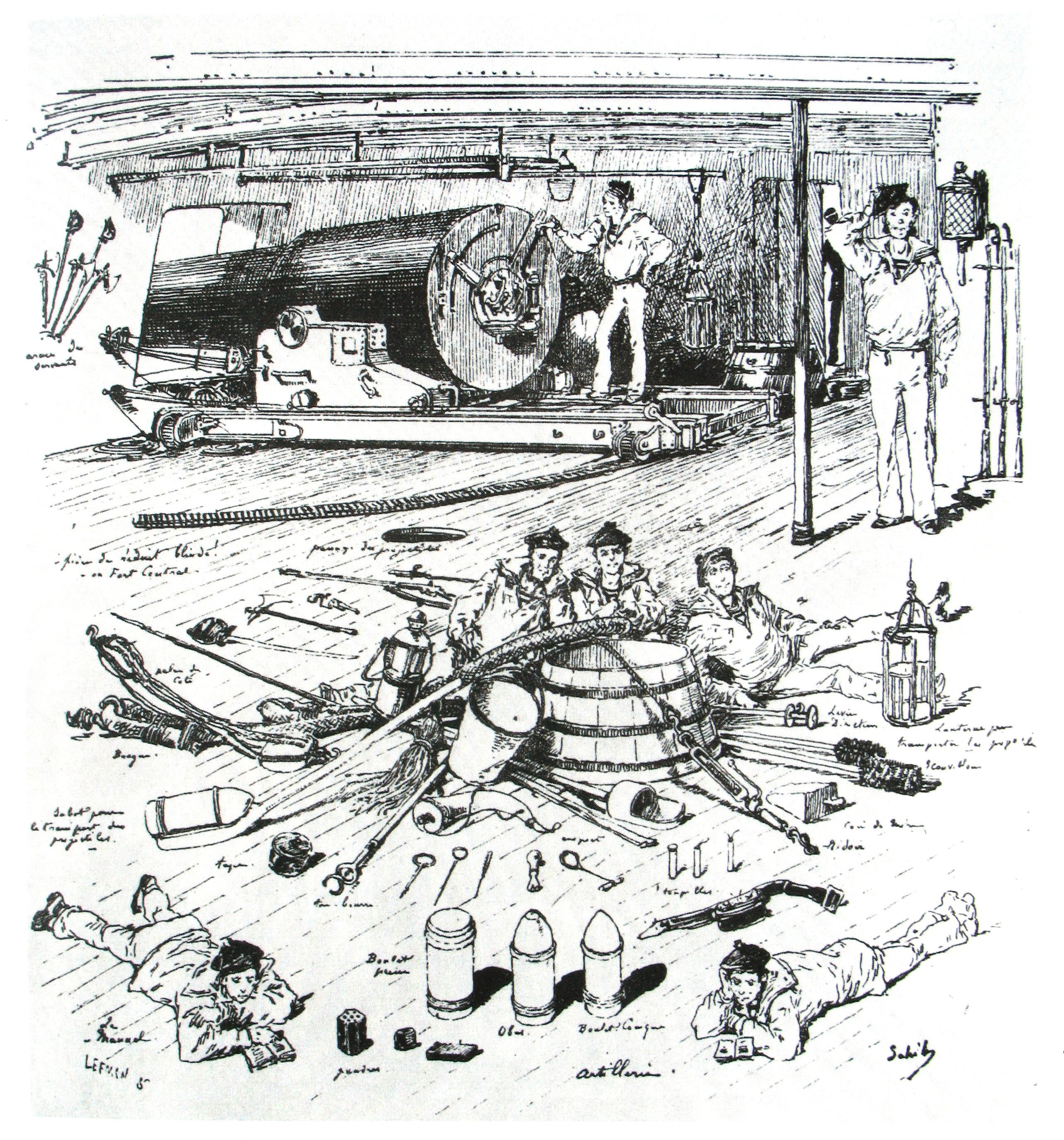 Naval 270mm gun aboard of French ironclad with a central battery in a 25cm armoured bunker